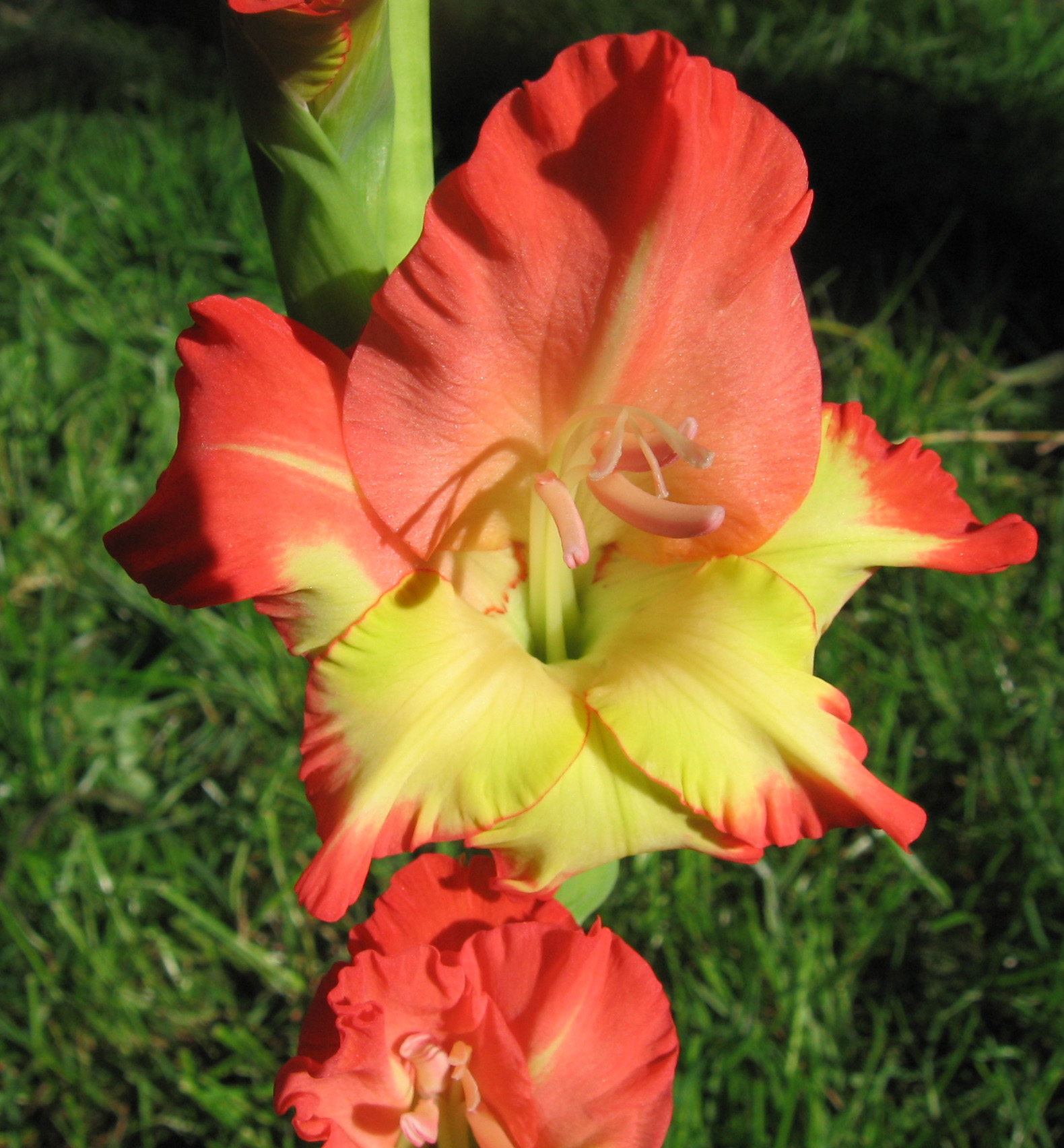 A Gladiolus hybrid. Image by Pharaoh Hound.